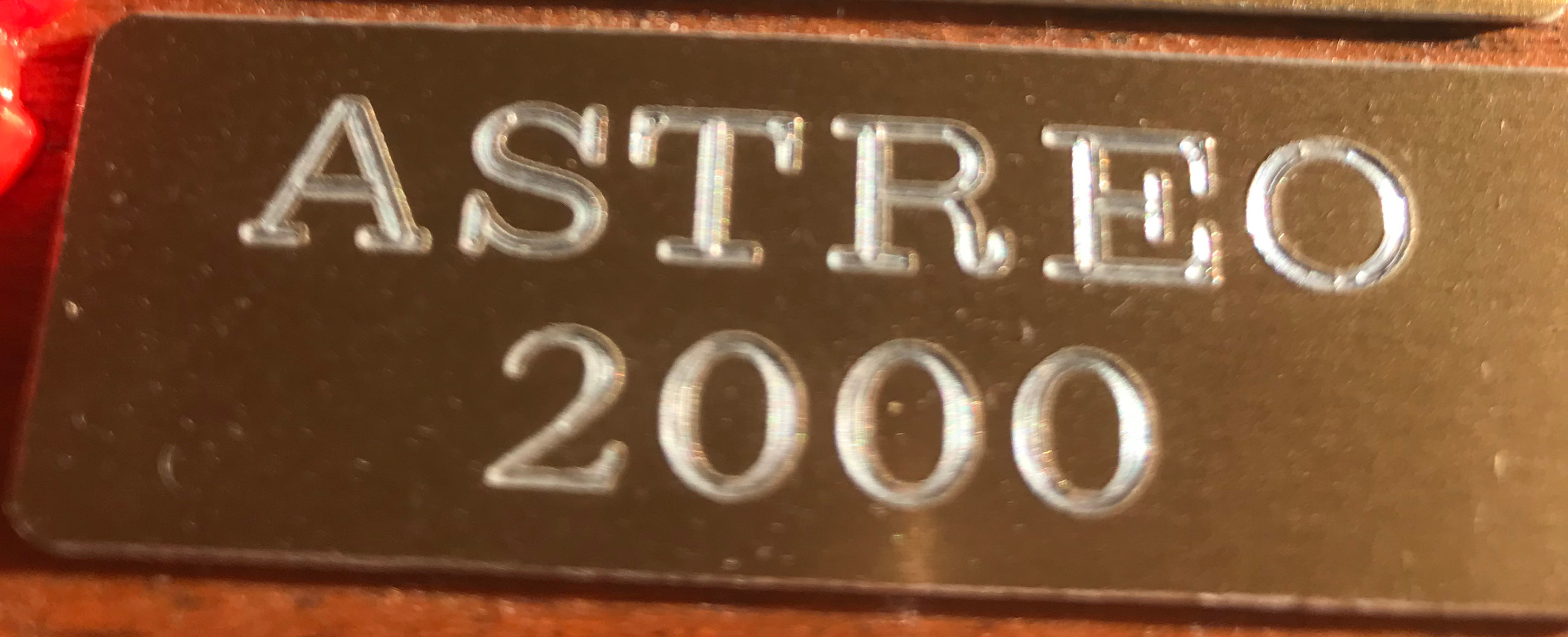 Patch on the Trophy